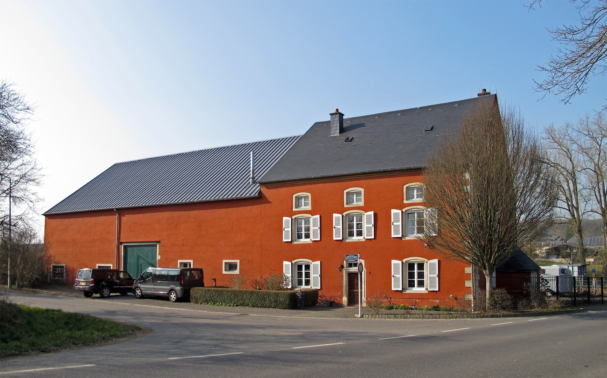 Farm in Niederpallen, Luxembourg, 2 Chemin de Beckerich